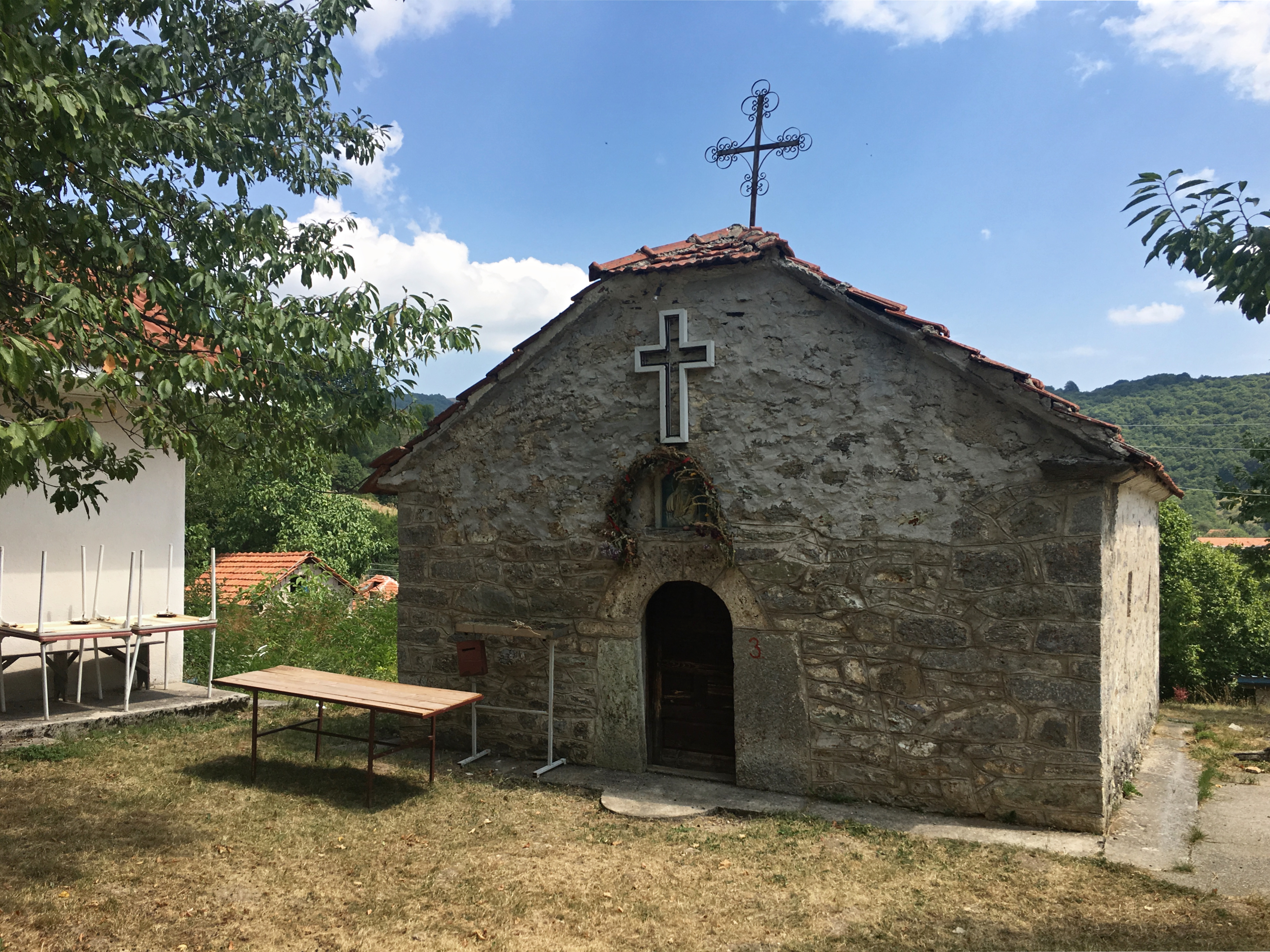 St. Elijah Church's yard in the village of Plaḱe